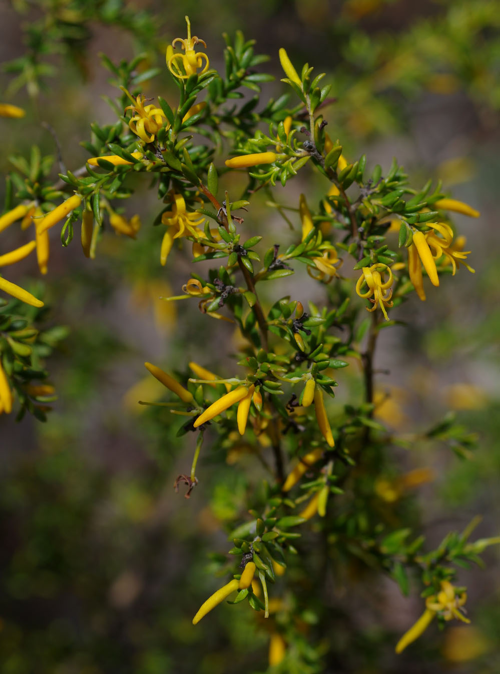 Persoonia terminalis ssp recurva, Australian National Botanic Garden, Canberra, ACT, 23-12-14